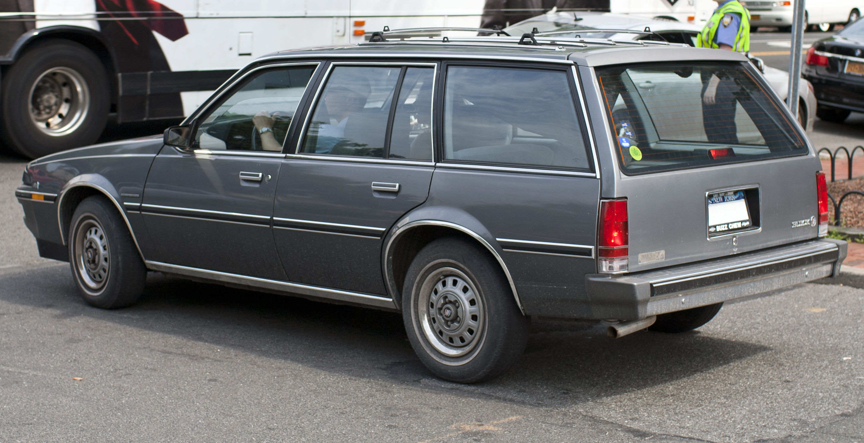 Late J-body 1987-1989 Buick Skyhawk Estate Wagon seen in East Hampton, NY.